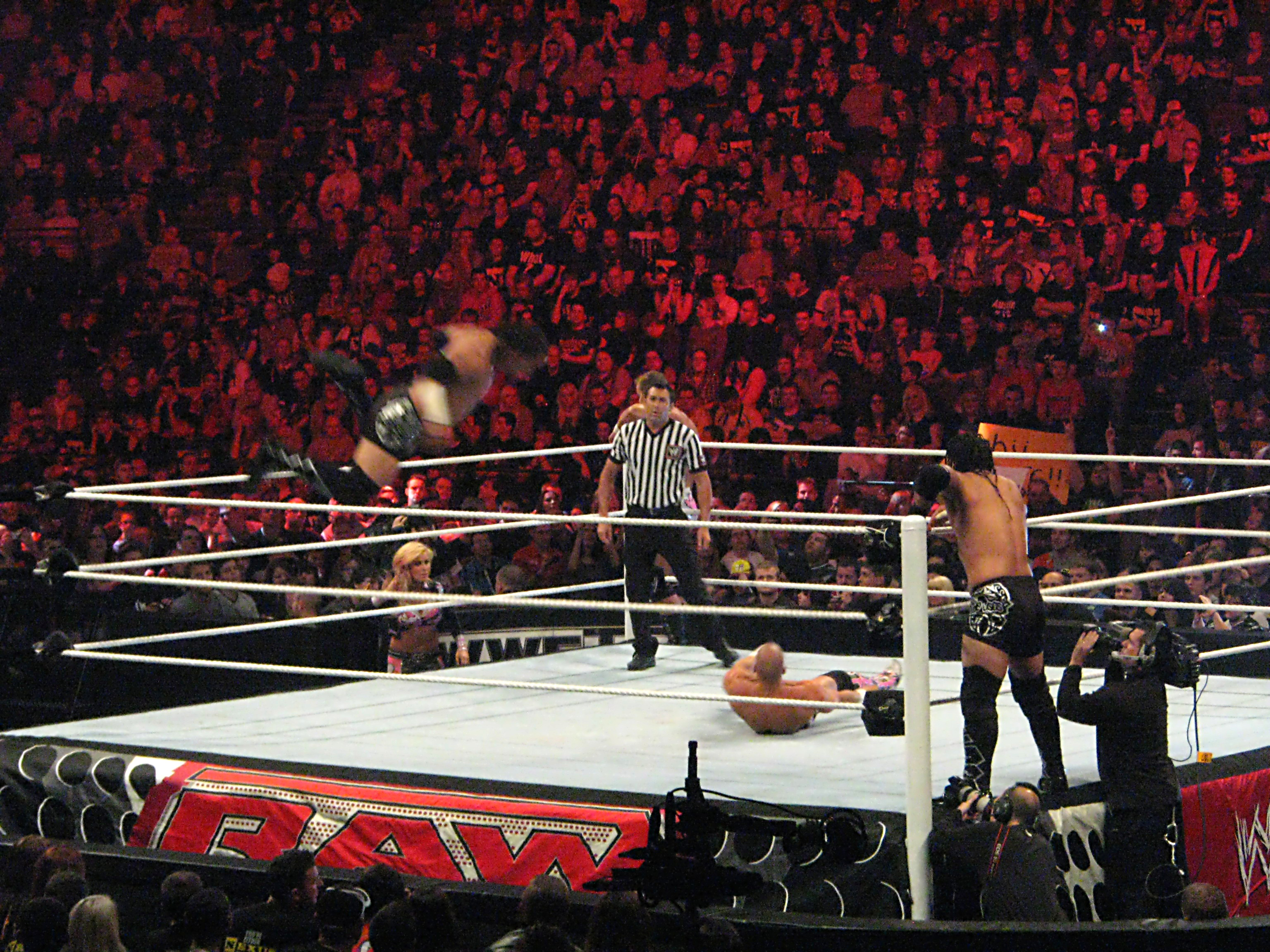 The Usos performing a Diving Headbutt